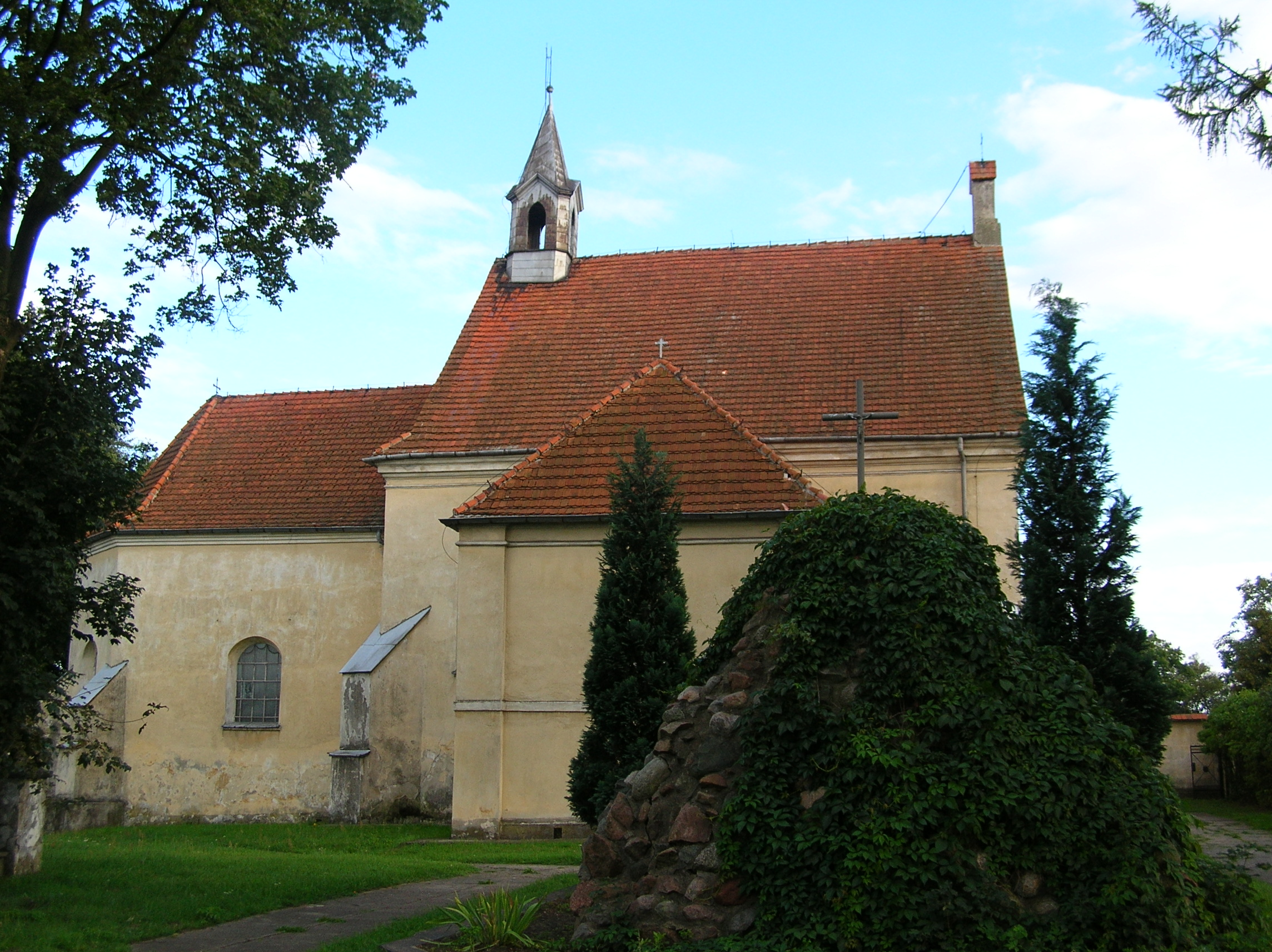 Invention of the Holy Cross church and Monastery at Nieszawa, Poland